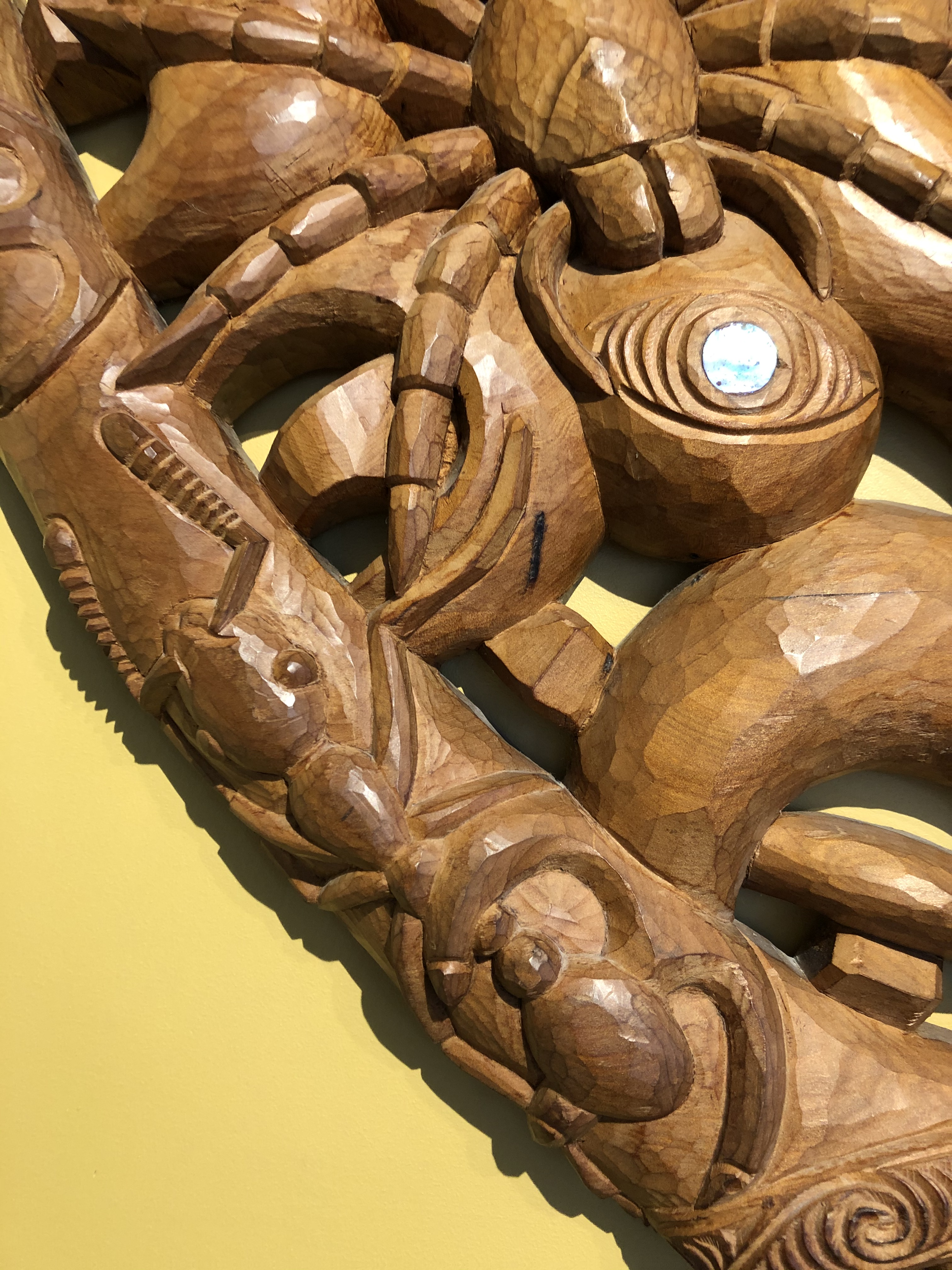 New Zealand Striated Ant carved by Denis Conway onto a Maori pare, on display at the New Zealand Arthropod Collection at Landcare Research, Auckland.